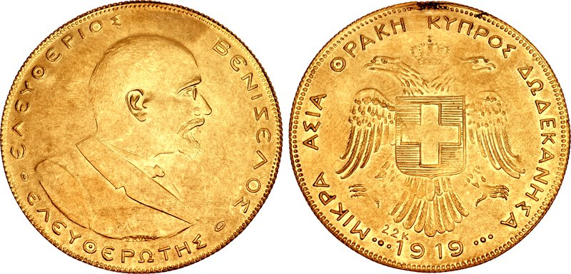 Χρυσό μετάλλιο του 1919 (39 χιλ., 10.67 γρ.) με αναπαράσταση του Ελευθερίου Βενιζέλου κατά την 3η πρωθυπουργική θητεία του. Διακόσμηση με δικέφαλο αετό, εθνόσημο. Περιμετρική επιγραφή ΜΙΚΡΑ ΑΣΙΑ ΘΡΑΚΗ ΚΥΠΡΟΣ ΔΩΔΕΚΑΝΗΣΑ και ΕΛΕΥΘΕΡΙΟΣ ΒΕΝΙΖΕΛΟΣ ΕΛΕΥΘΕΡΩΤΗΣ